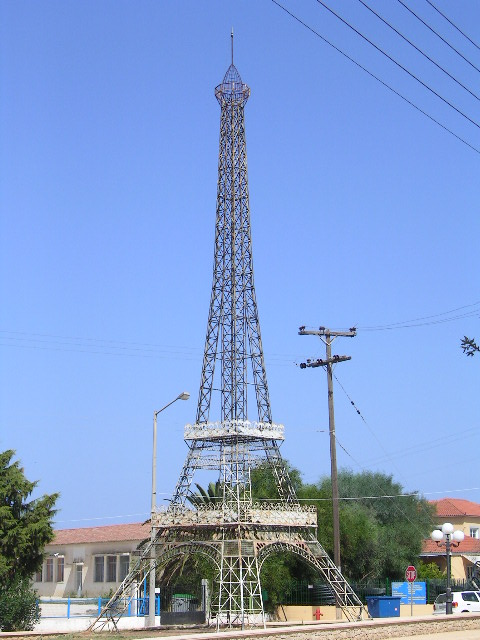 Tour Filiatra'